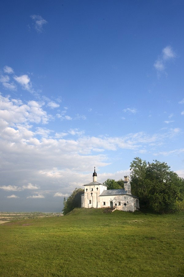 Stone church of St. Nicholas with Mounds